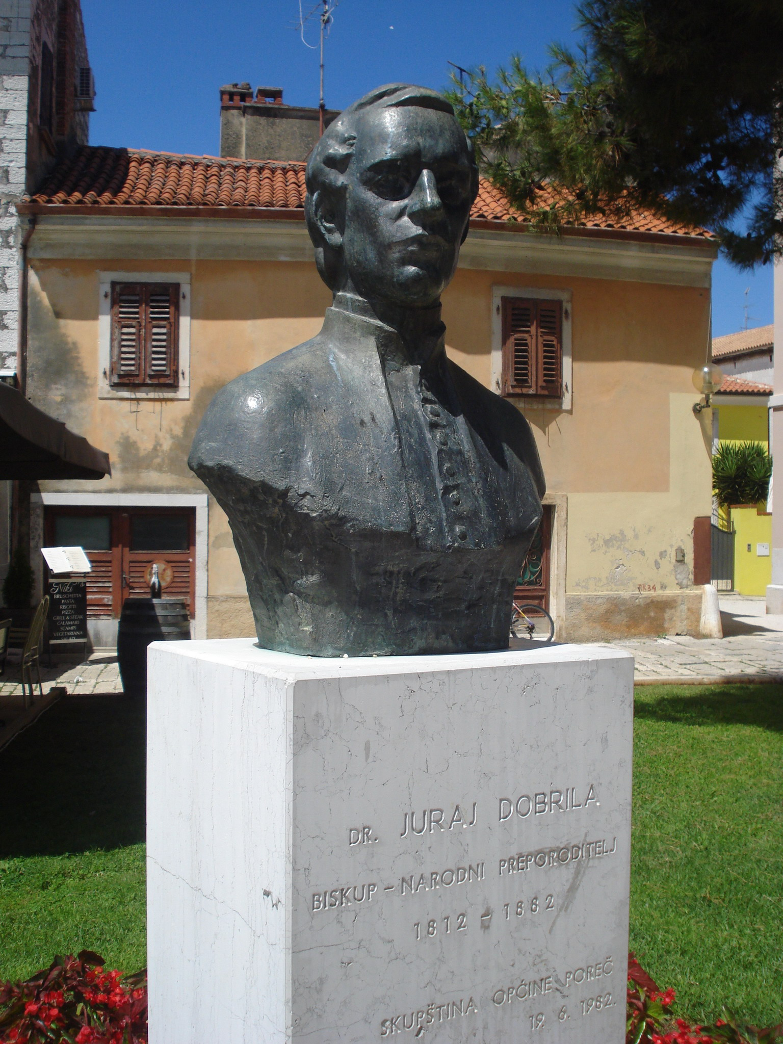 Juraj (engl.:George) Dobrila, Ph.D., Croatian bishop and national revivalist from Istria - bust in Poreč, Istria County, Croatia